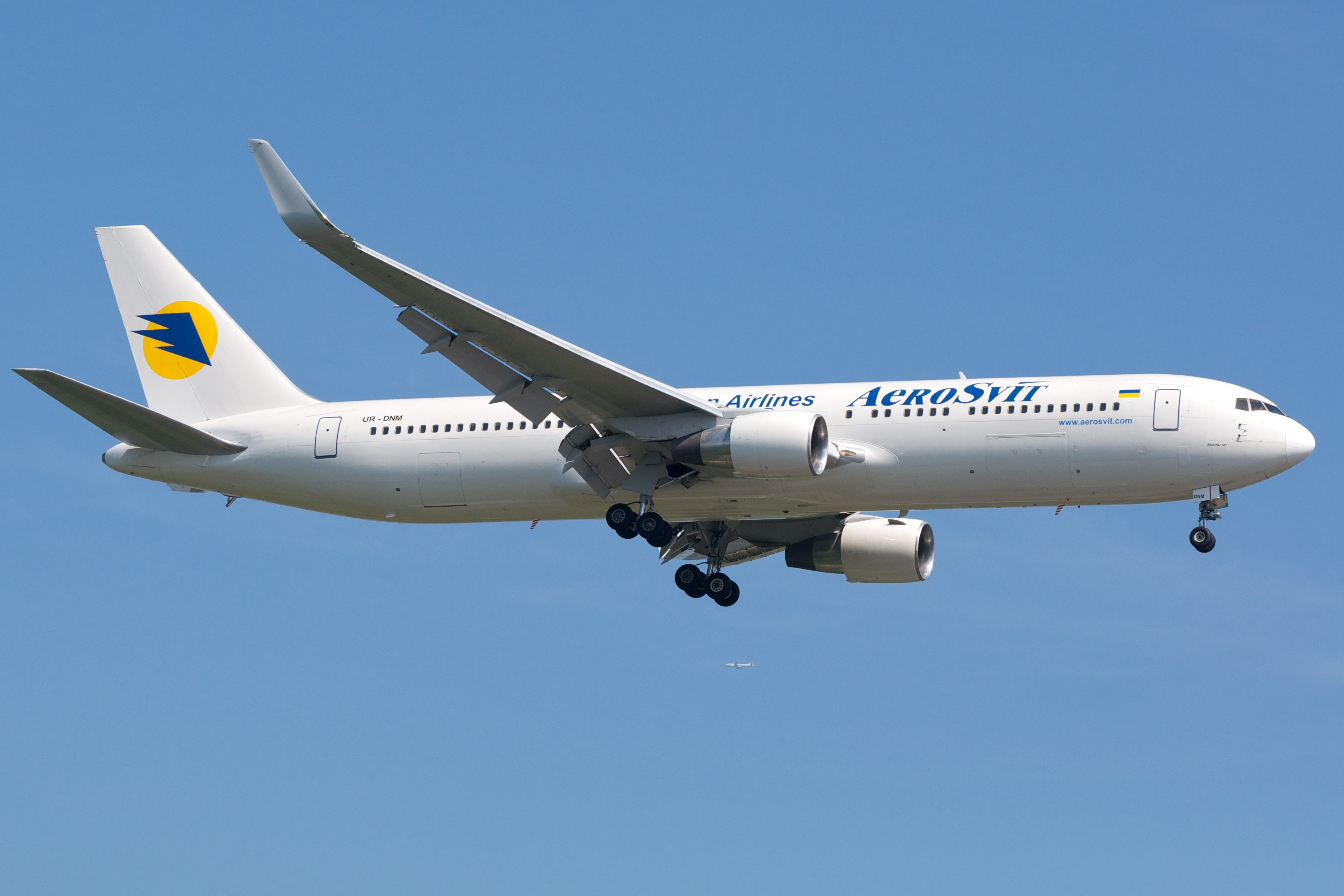 AeroSvit 767-300ER arrives in Toronto.